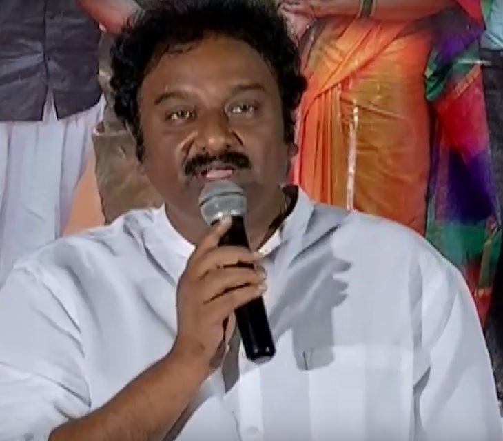 Indian filmmaker V. V. Vinayak at the teaser release event of the 2018 Telugu language film Ammammagarillu.